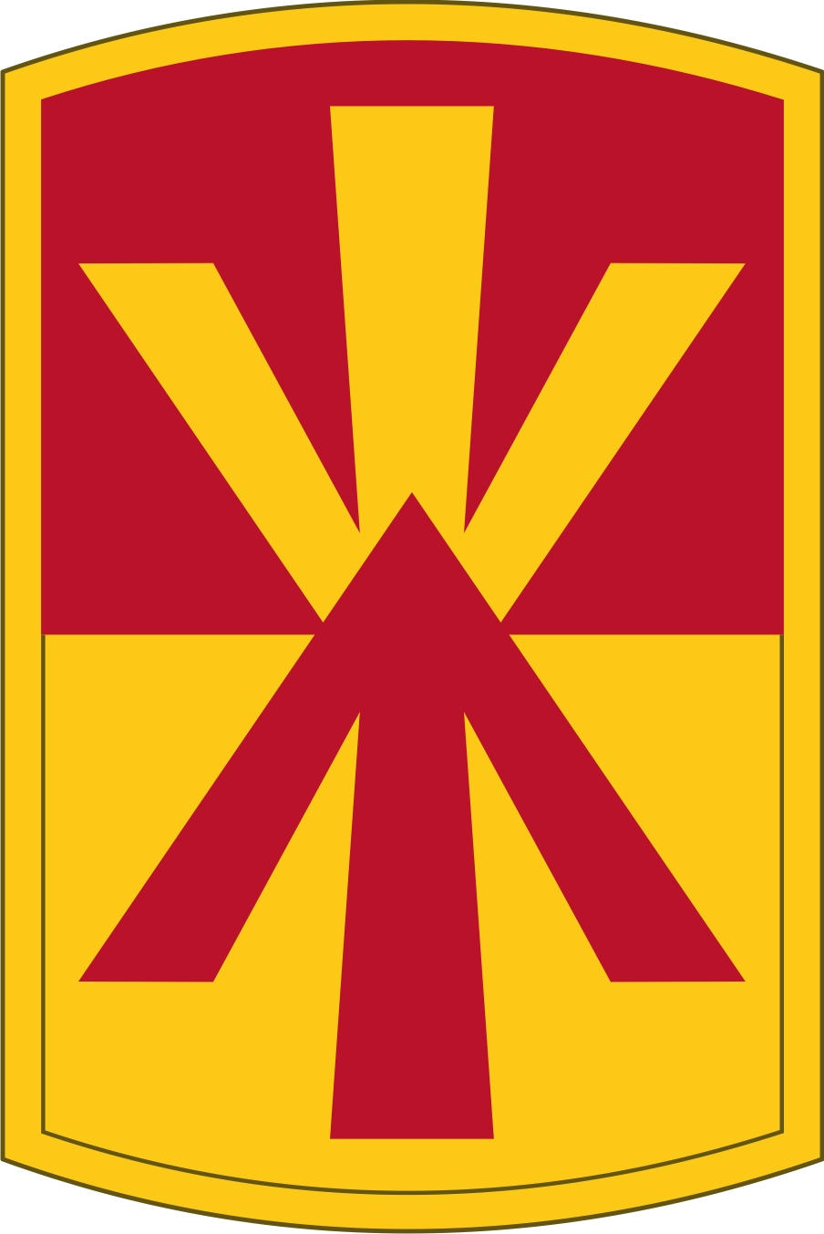 11th ADA BDE SSI